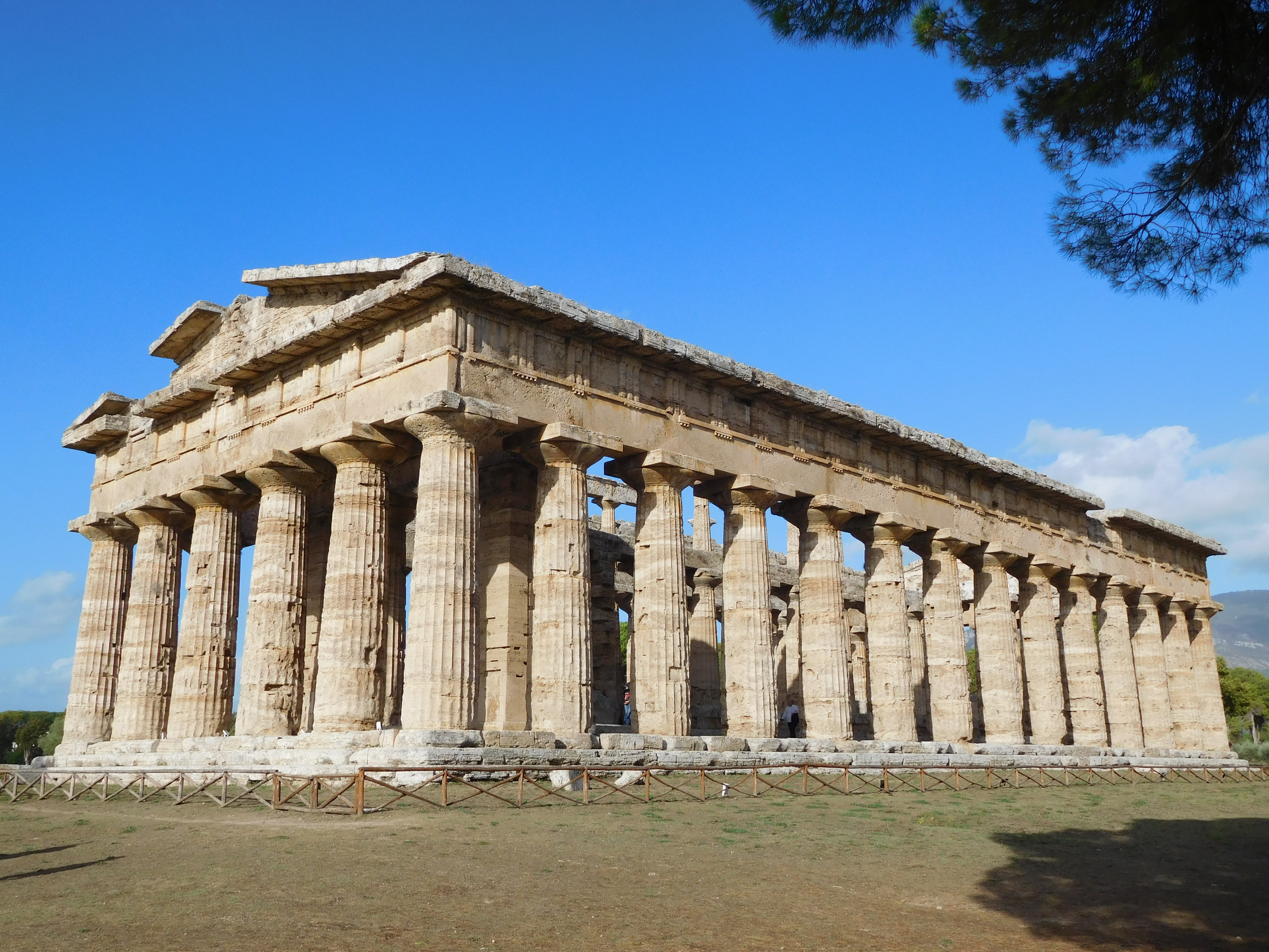 Temple of Poseidon (Paestum) This is a photo of a monument which is part of cultural heritage of Italy.